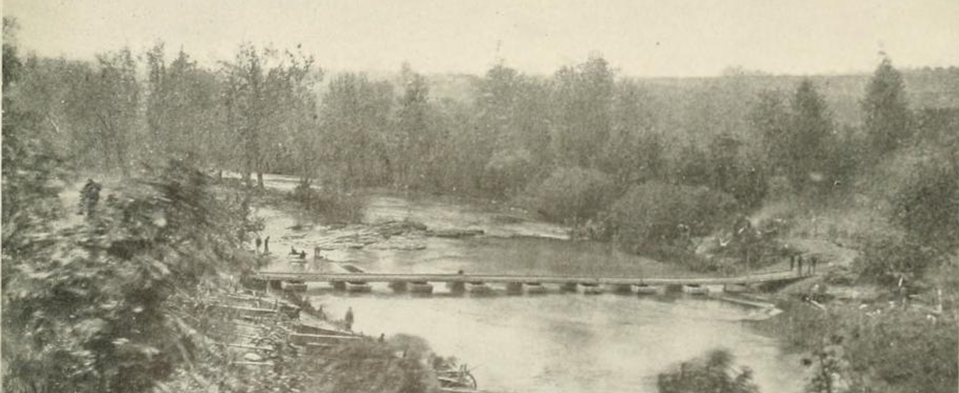 Union engineers have constructed a pontoon bridge over the North Anna River in May 1864 for the Battle of North Anna. This view is from Jericho Mill. See complement photo File:PontoonBridgeOverNorthAnnaRiver.jpg